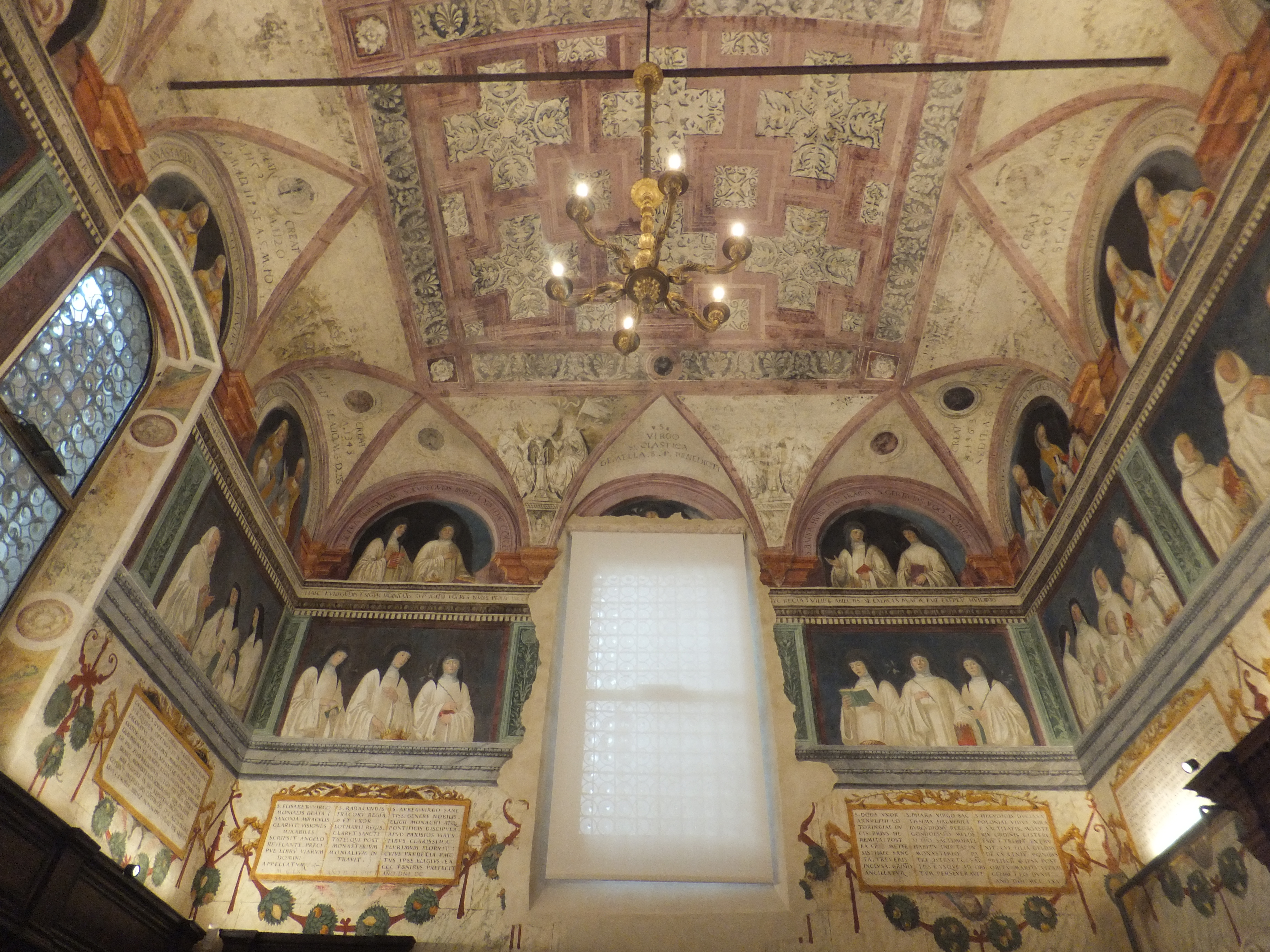 Verona, church of Santa Maria in Organo - Sacresty